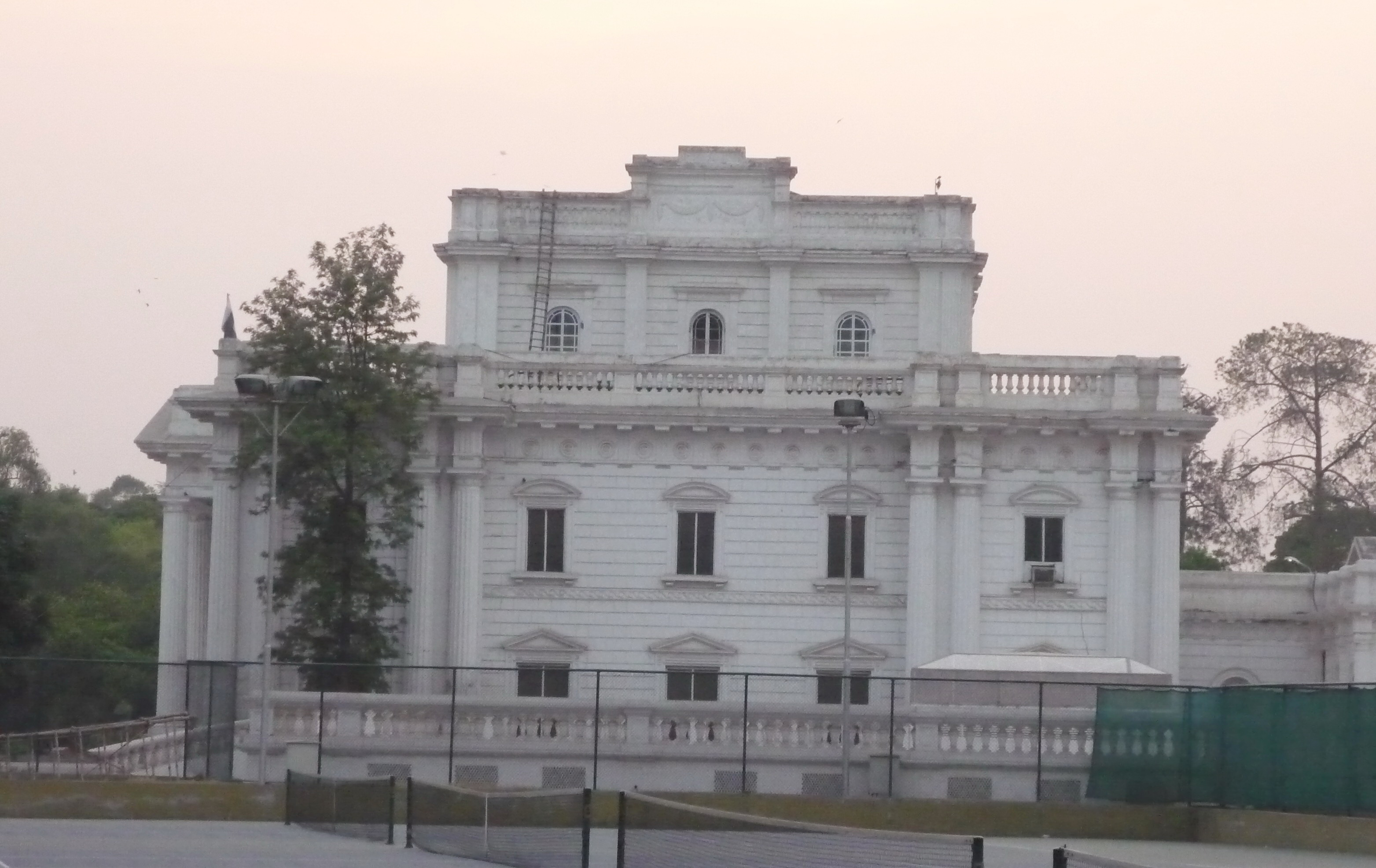 Library at Lawrence Garden Lahore. Pakistan